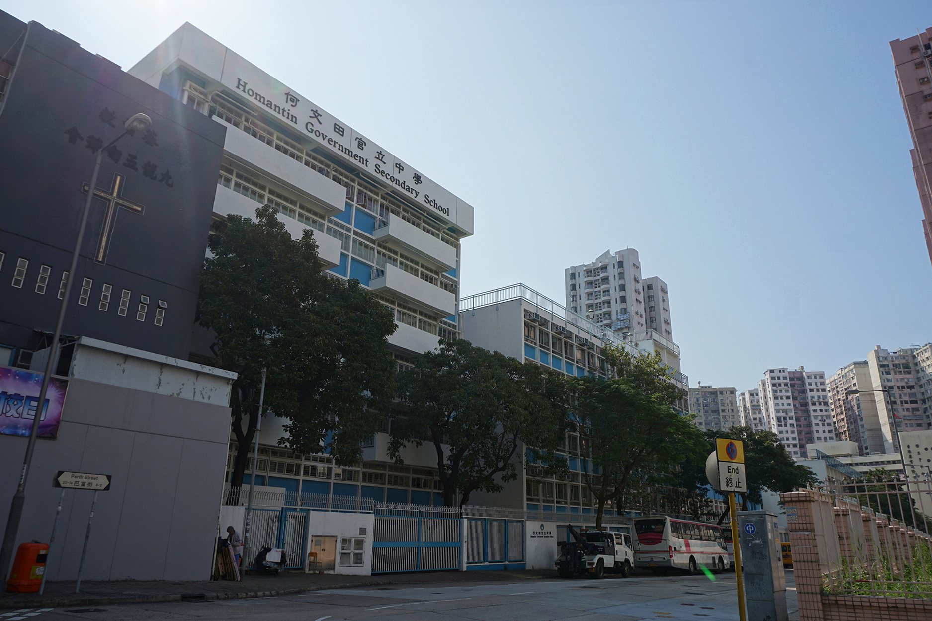 Homantin Government Secondary School in Ho Man Tin, Hong Kong.